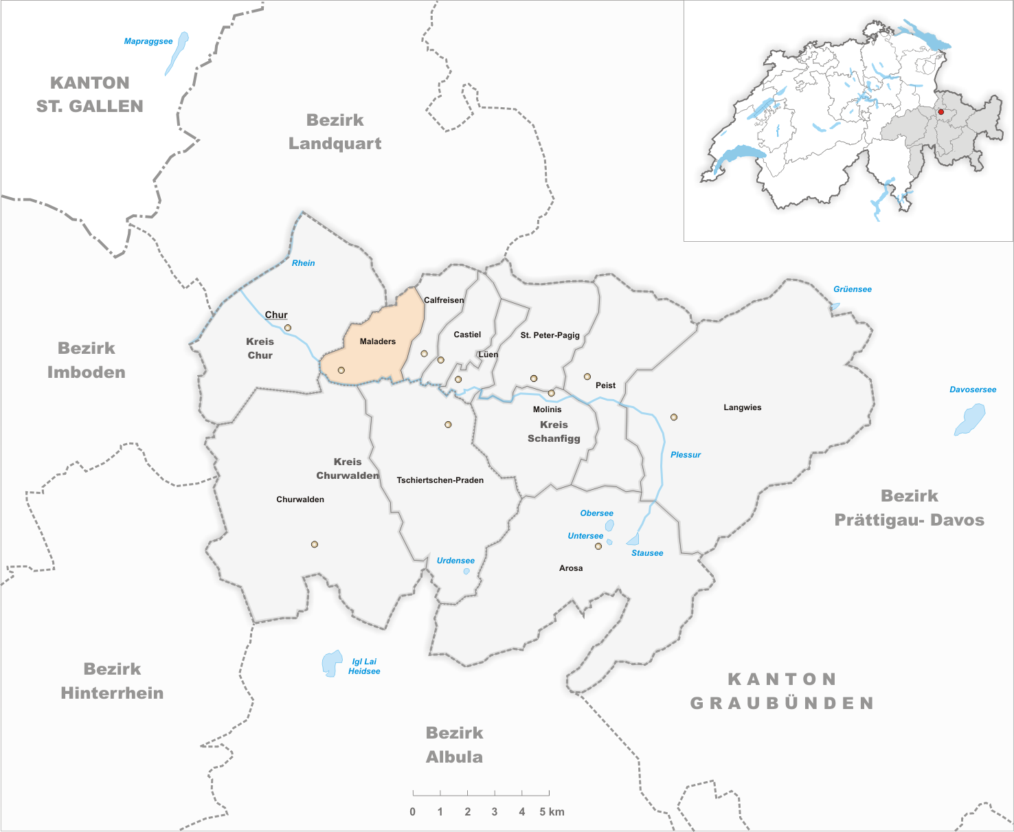 Municipality Maladers